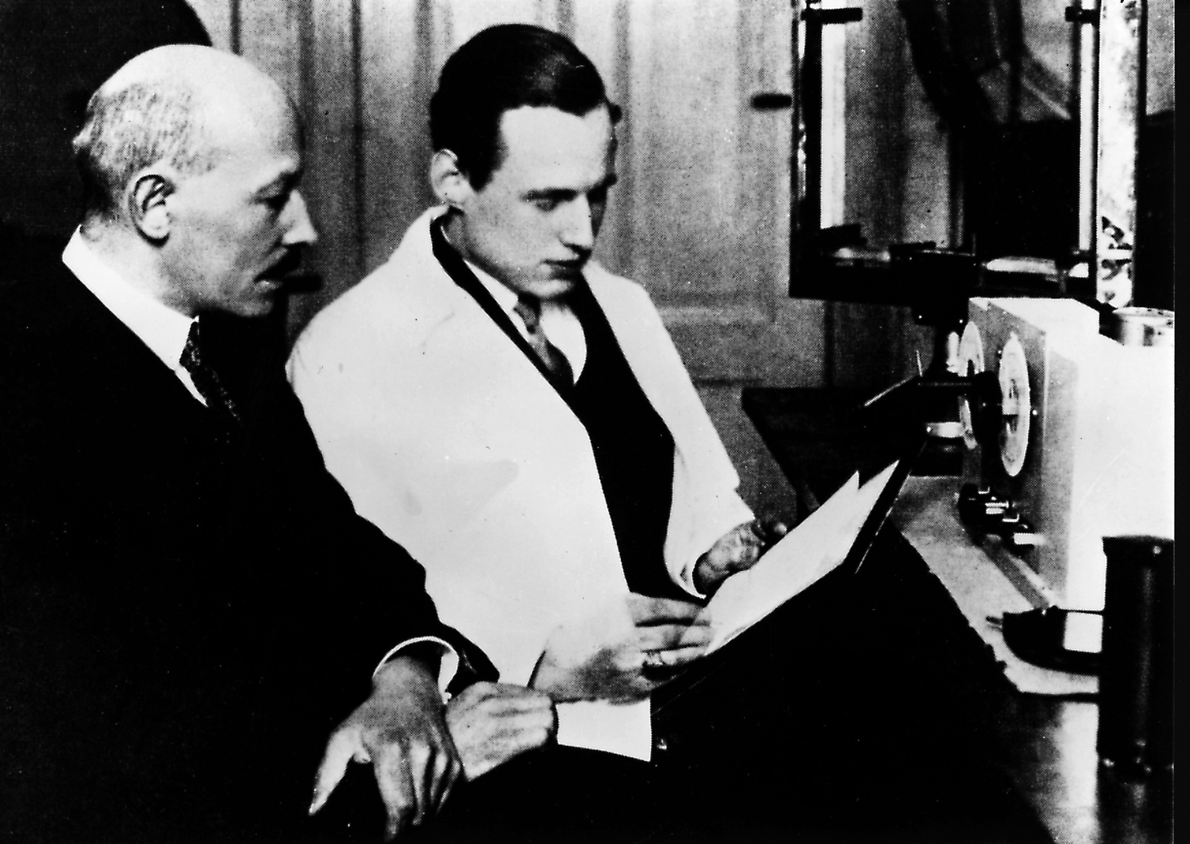 Siegmund Loewe (1885-1962) and Manfred von Ardenne (1907-1997)